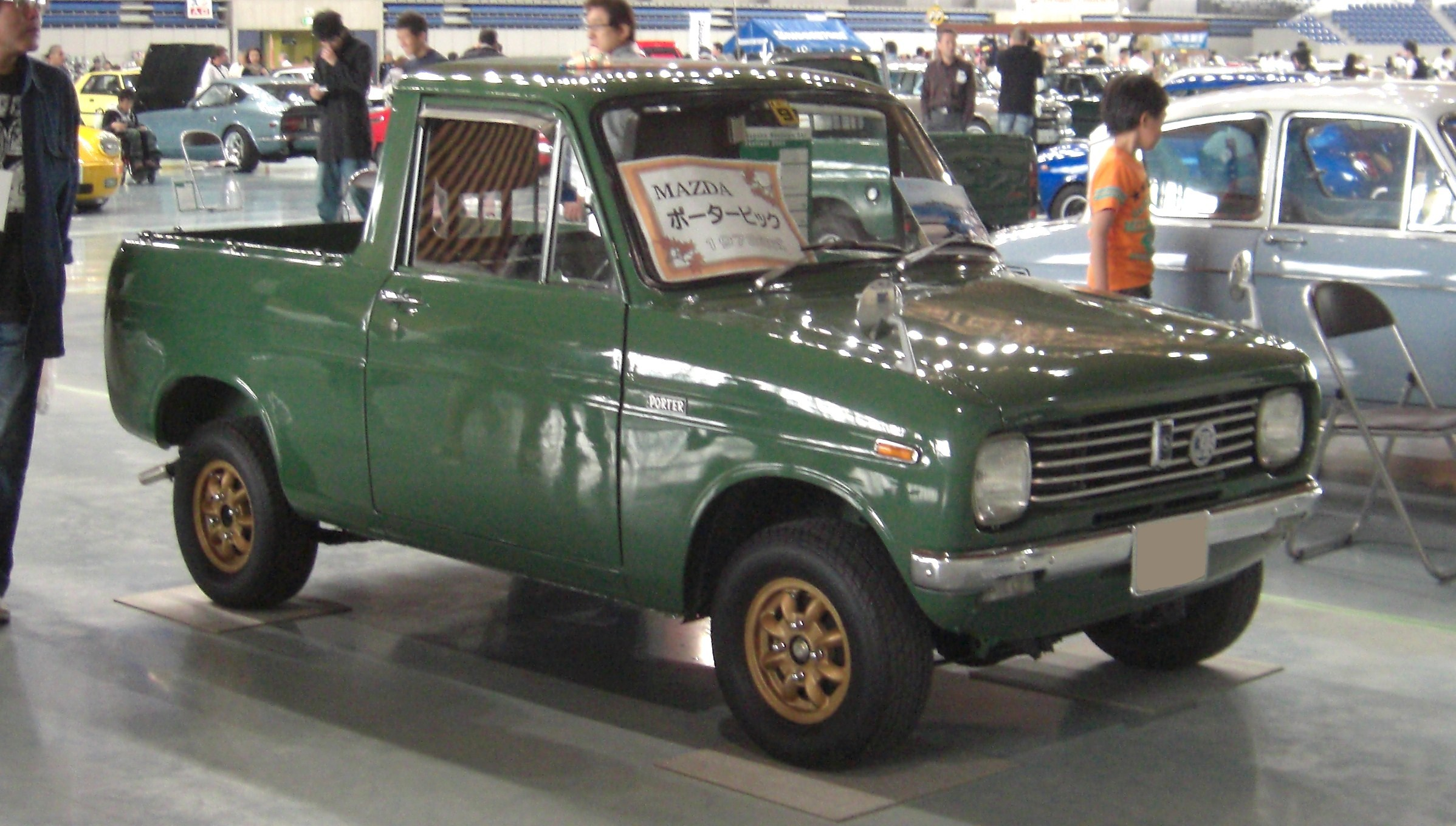 Mazda Porter